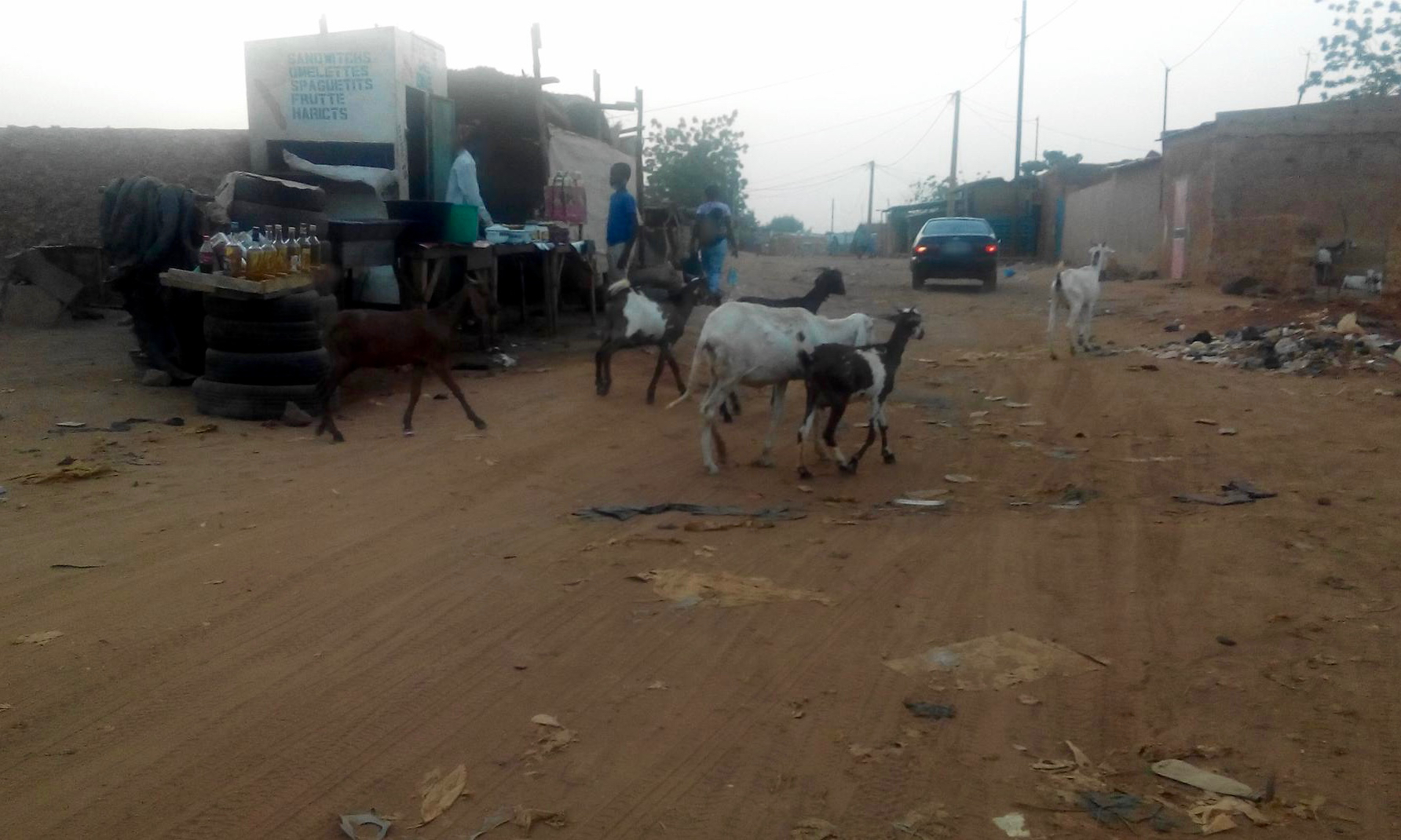 A street in Koubia, Niamey.